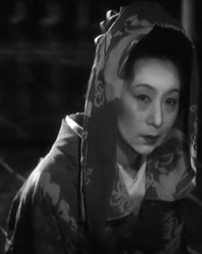 Screenshot from The Life of Oharu, 1952 film.